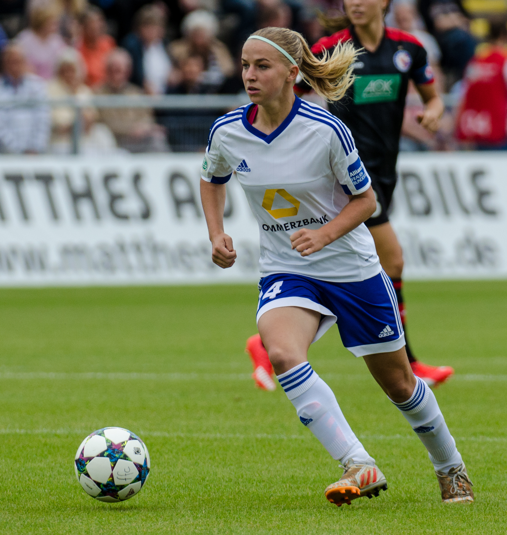 Match of the German Women's Football Bundesliga between 1.FFC Frankfurt and 1. FFC Turbine Potsdam, 2015-09-13